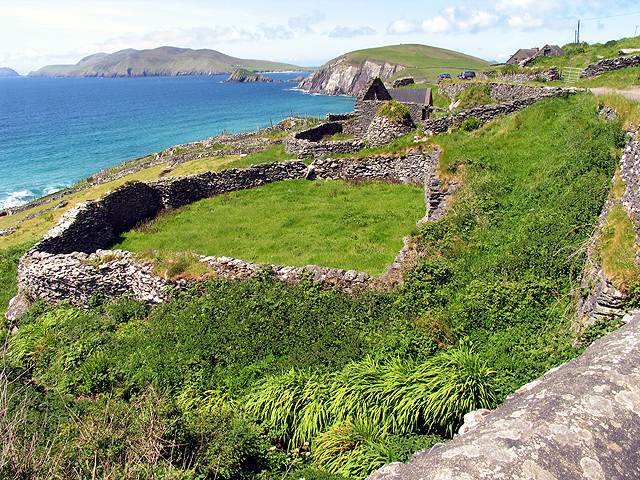 Sheep Pen and Pasture at Coumeenoole. This derelict building and sheep pen is on the coast side of the road as one travels away from Slea Head towards Dunmore Head.